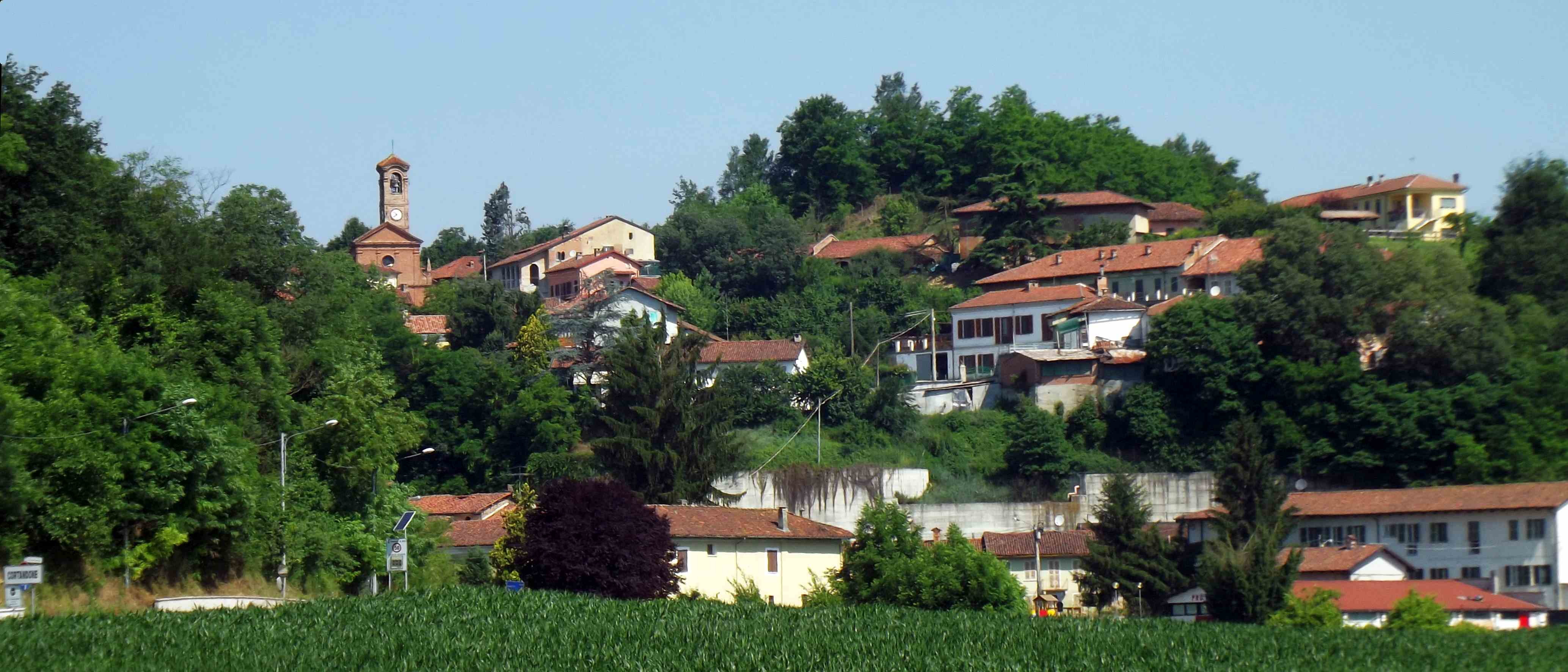 Cortandone (AT, Italy): panorama